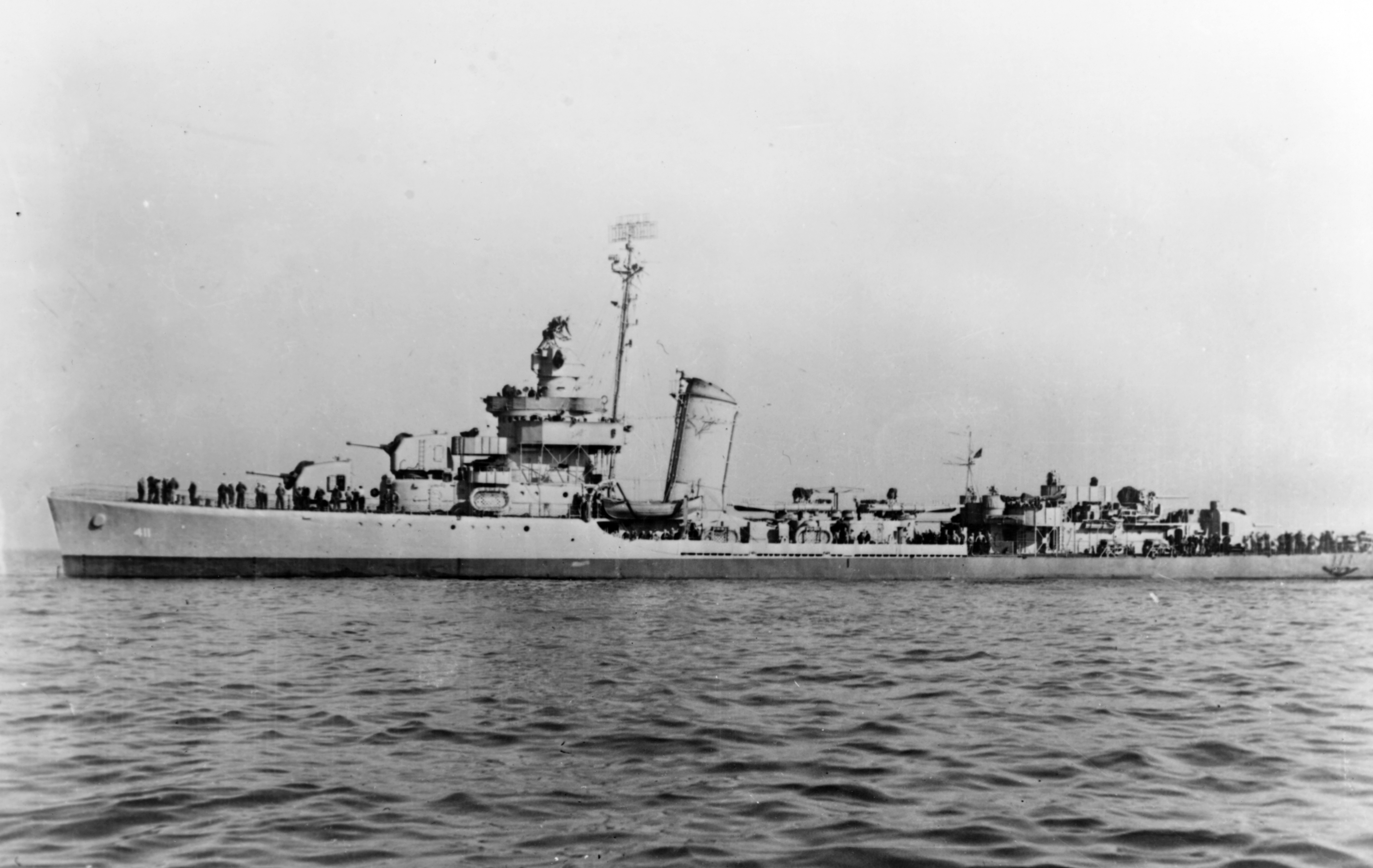 USS Anderson